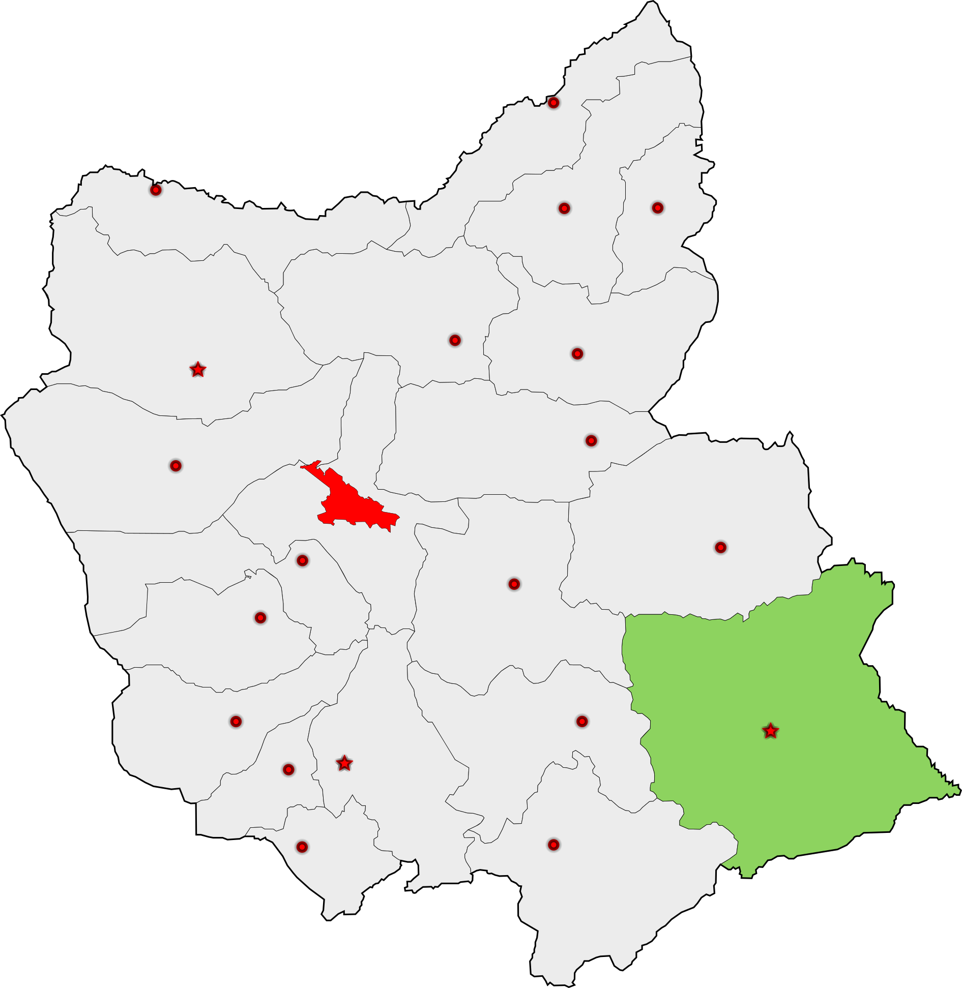 East Azarbaijan counties (shahrestan), divisions